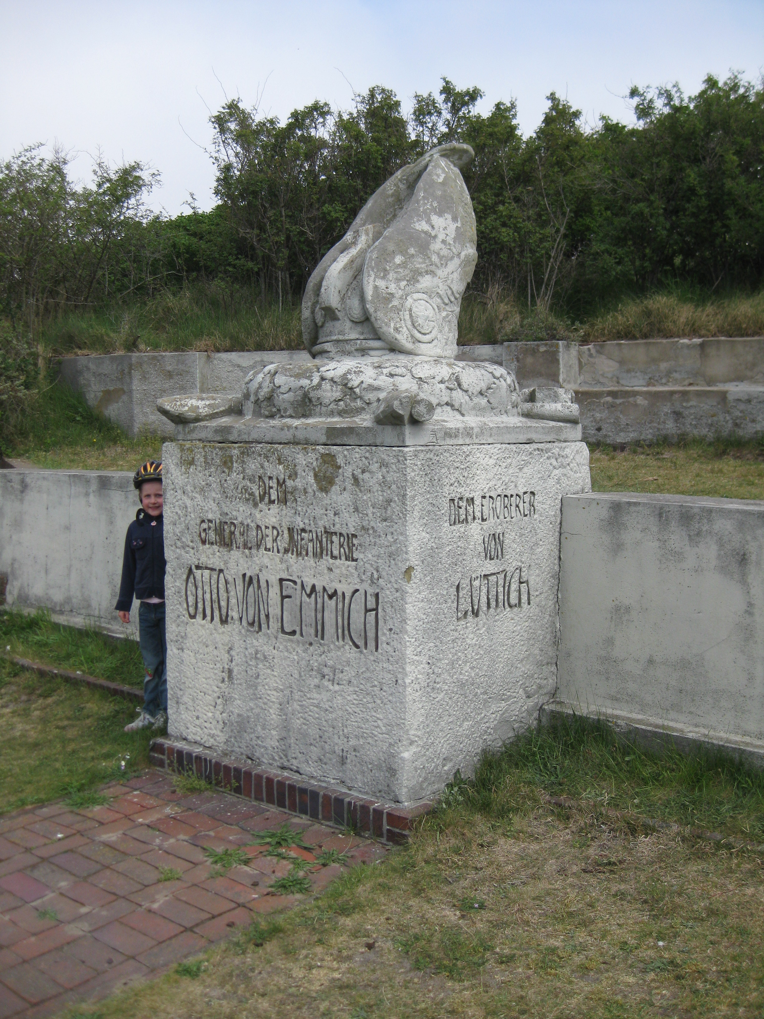 Part of the Emmich Memorial on Borkum